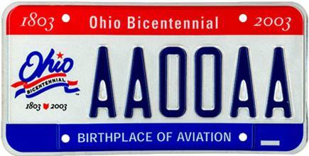 Photo of 2001 Ohio license plate